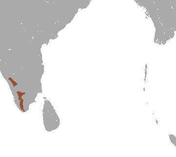 Nilgiri Langur (Trachypithecus johnii) range